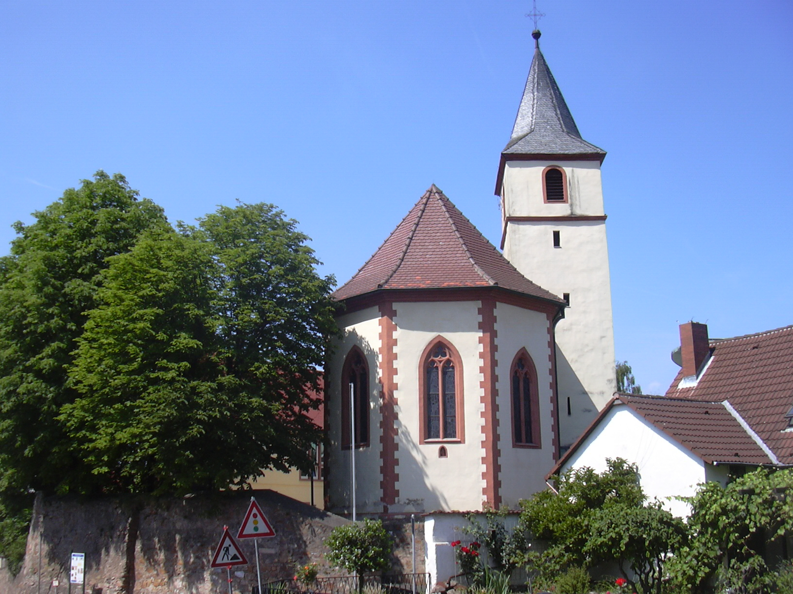 Pilgrims' church St. Mary in the Rough Wind, Alzenau/Kälberau, Bavaria/Germany